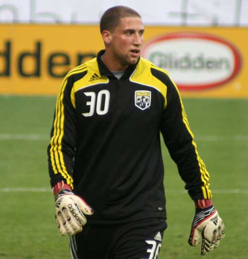 Andy Gruenebaum photographed by Jim Early on May 3, 2008 at the Columbus Crew Stadium during warmups. The Columbus Crew played Kansas City Wizards that night.